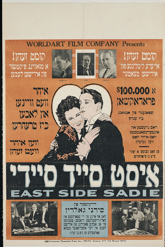 Description: Yiddish movie poster for "East Side Sadie" Creator Unknown Medium: Color poster Date: 1929 Persistent URL: Call Number: 1967.001.313 Collection: Yiddish Theater Posters Repository: American Jewish Historical Society Rights Information: No known copyright restrictions; may be subject to third party rights. For more copyright information, click here. See more information about this image and others at CJH Digital Collections. To inquire about rights and permissions, or if you have a question regarding the collection to which the image belongs, please contact the Reference Department of the American Jewish Historical Society by email. Digital images created by the Gruss Lipper Digital Laboratory at the Center for Jewish History.